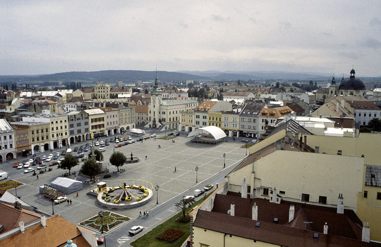 Kroměříž, view from castle tower